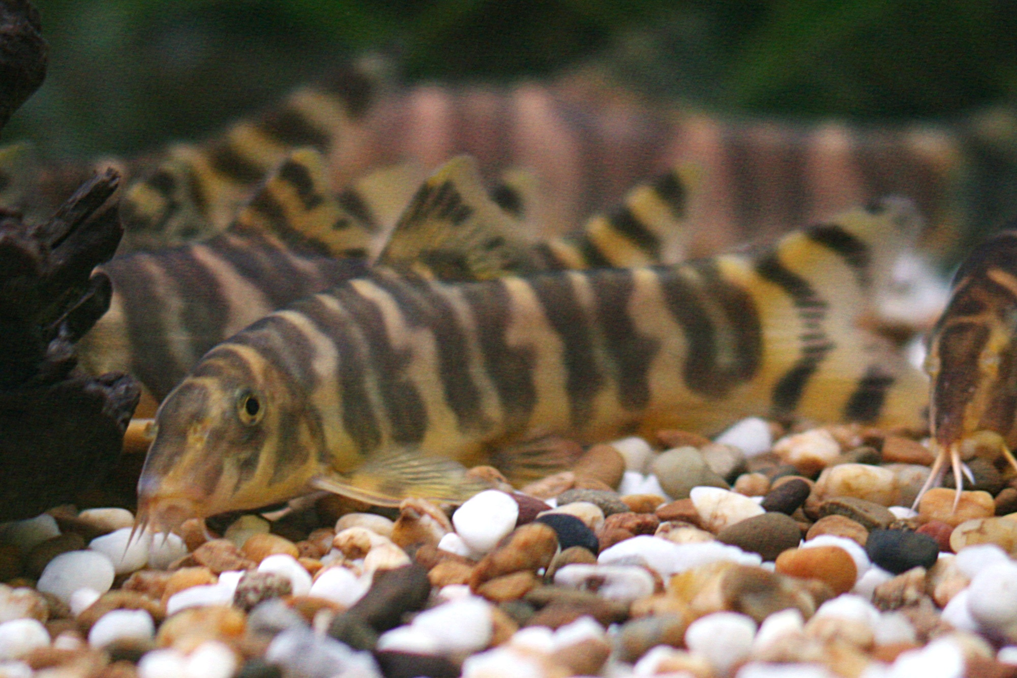 Emperor loach Botia udomritthiruji (known as Botia sp Tanasserim before described). Size about 10cm SL